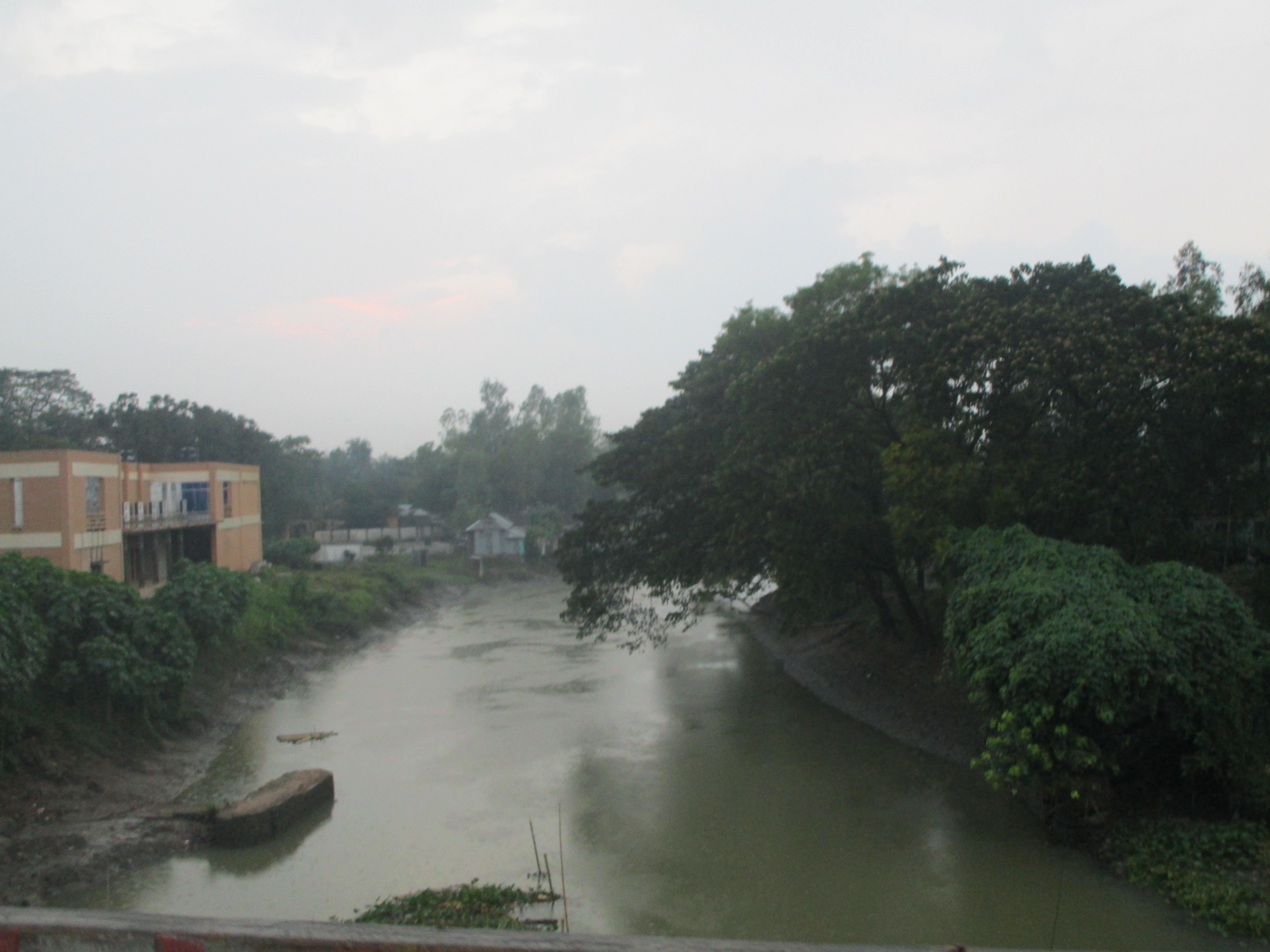 Bangshi River at Madhupur Upazila of Tangail District.